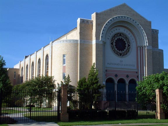 Alabama School of Math and Science